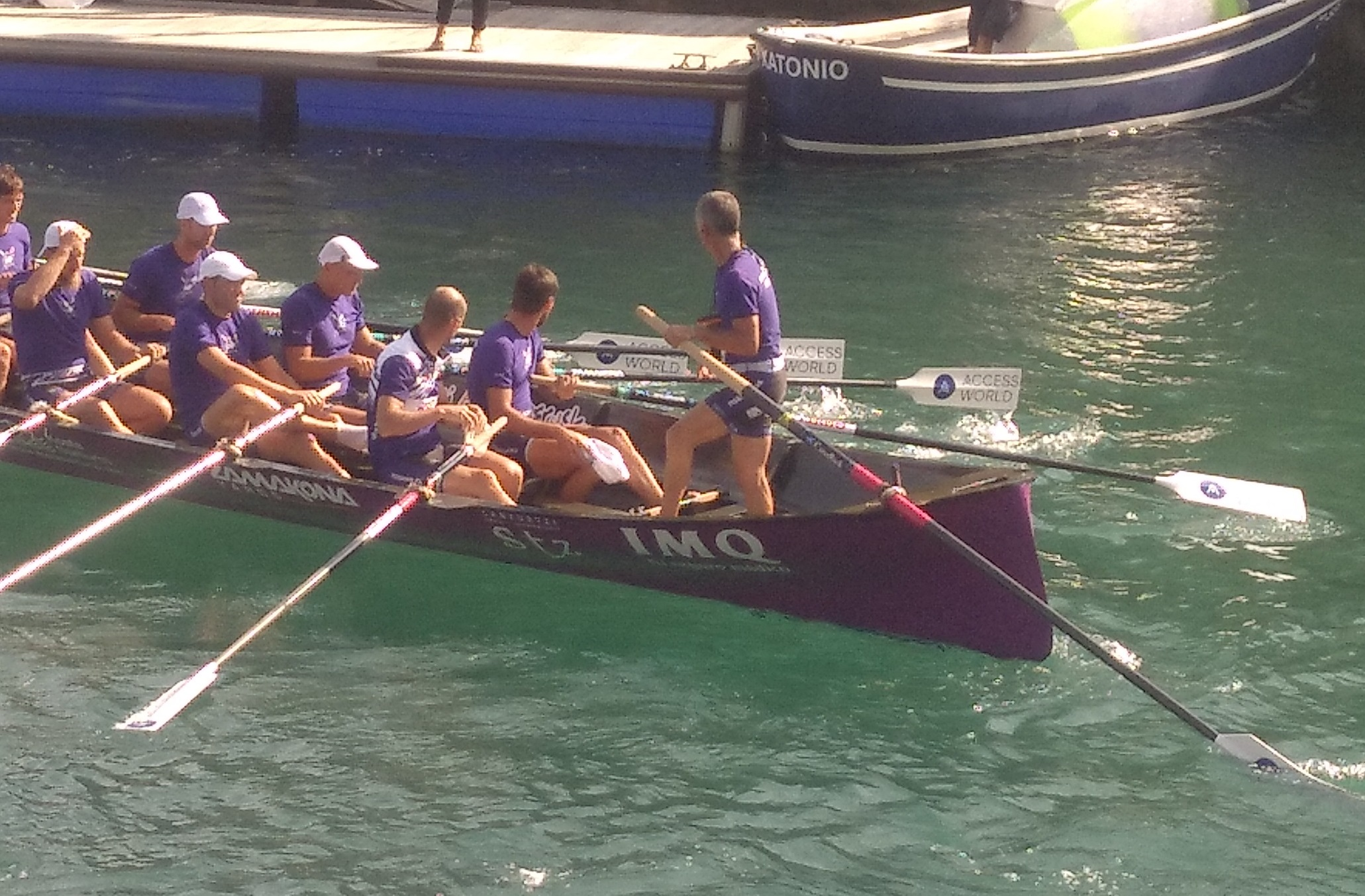 Asier Zurinaga patron of Santurtzi boat